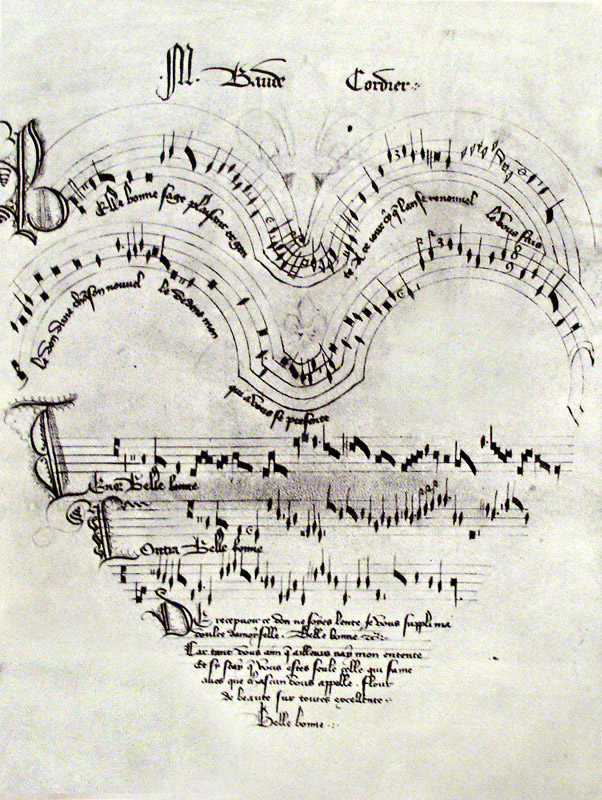 Score of Baude Cordier's chanson "Belle, bonne, sage," from The Chantilly Manuscript, Musée Condé 564. The manuscript is one of the classic examples of ars subtilior, which requires red notes, or "coloration" to indicate changes in note lengths from their normally written values. This chanson, a dedicatory piece on the love of a lady and a lord written in the shape of a heart, opens the corpus. Note the heart of notes within the larger heart.